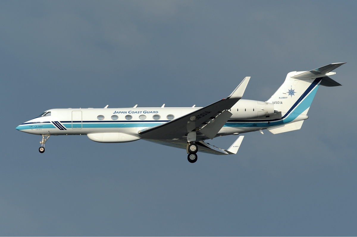 Japan Coast Guard Gulfstream Aerospace G-V Gulfstream V